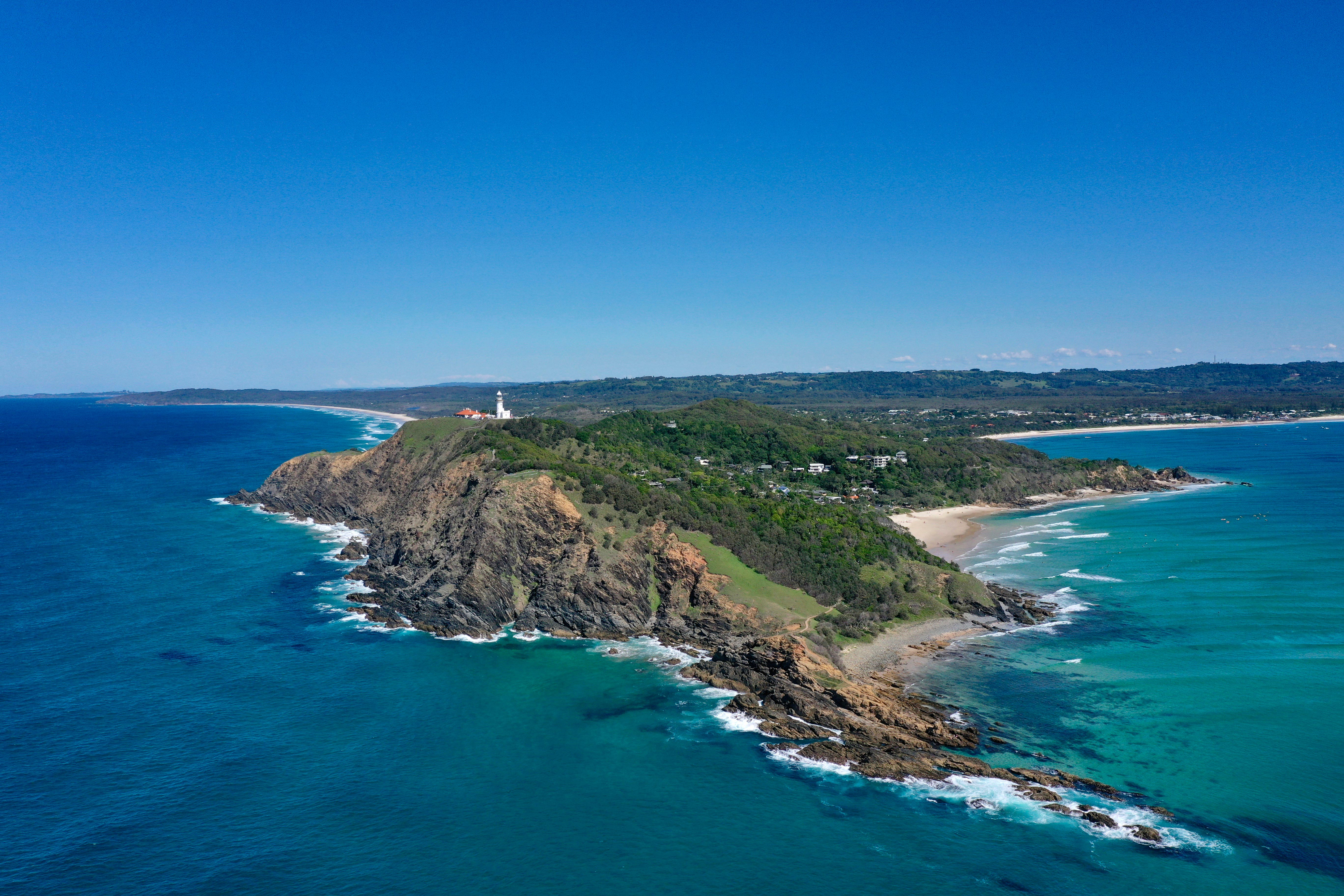 Byron Bay Lighthouse, Beach and Hinterland Aerial Shot in the Northern Rivers, NSW, Australia